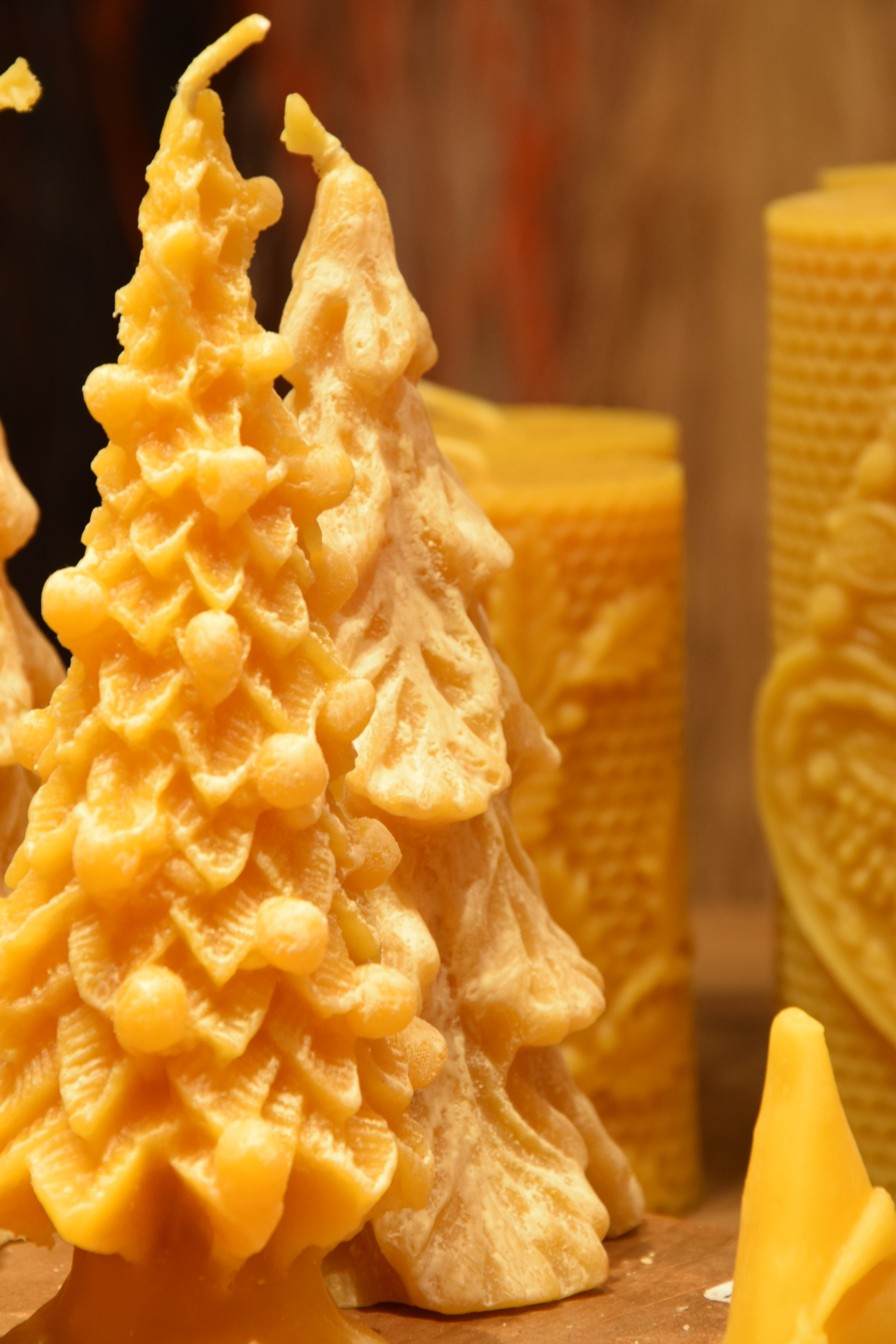 Candles honey